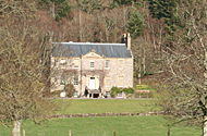 Dunlugas House